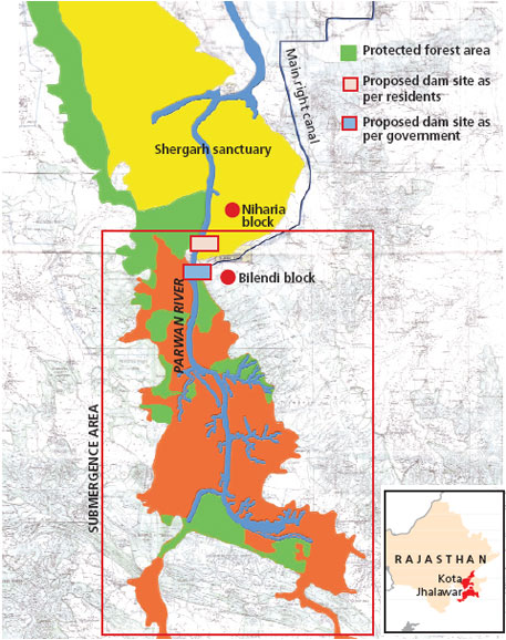 Parwan Dam Site